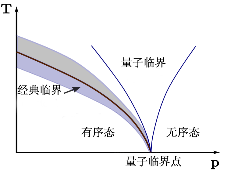 Phase diagram of a second order quantum phase transition